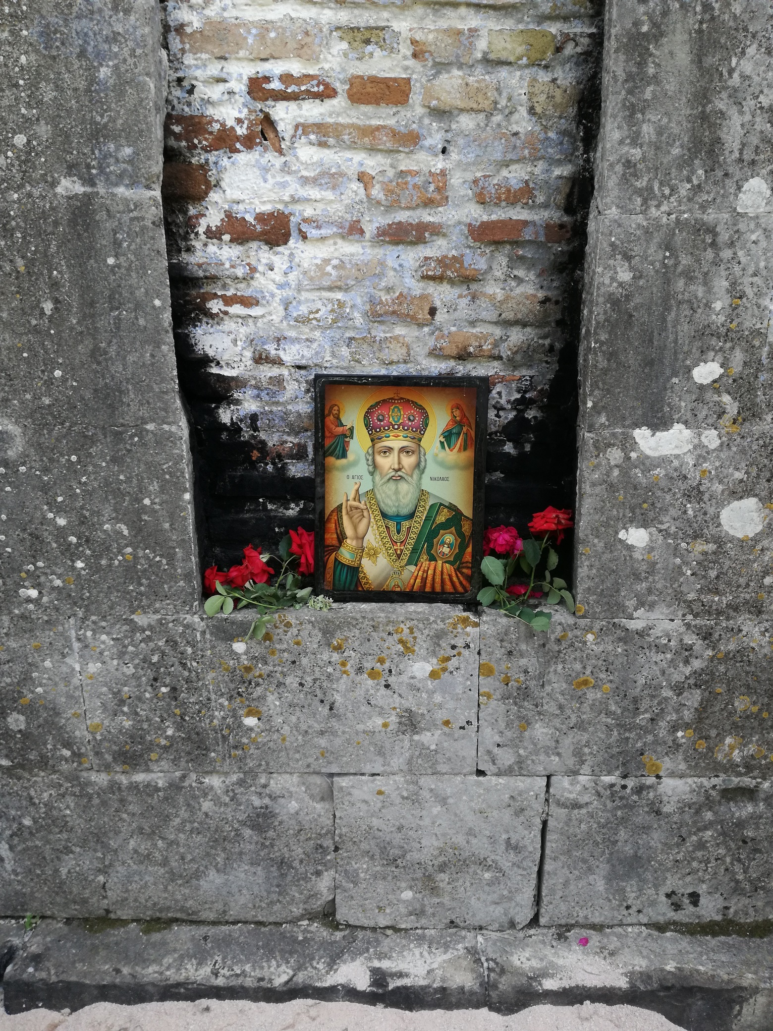 An opening in the original temple walls, used as an alcove by the monastery builders, with an icon of Saint Nicholas